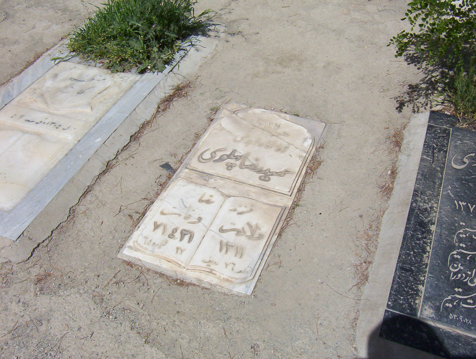 Hamidreza Pahlavi Tomb